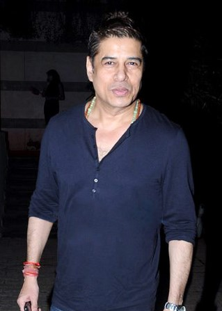 Sudesh Berry at Chivas Studio .